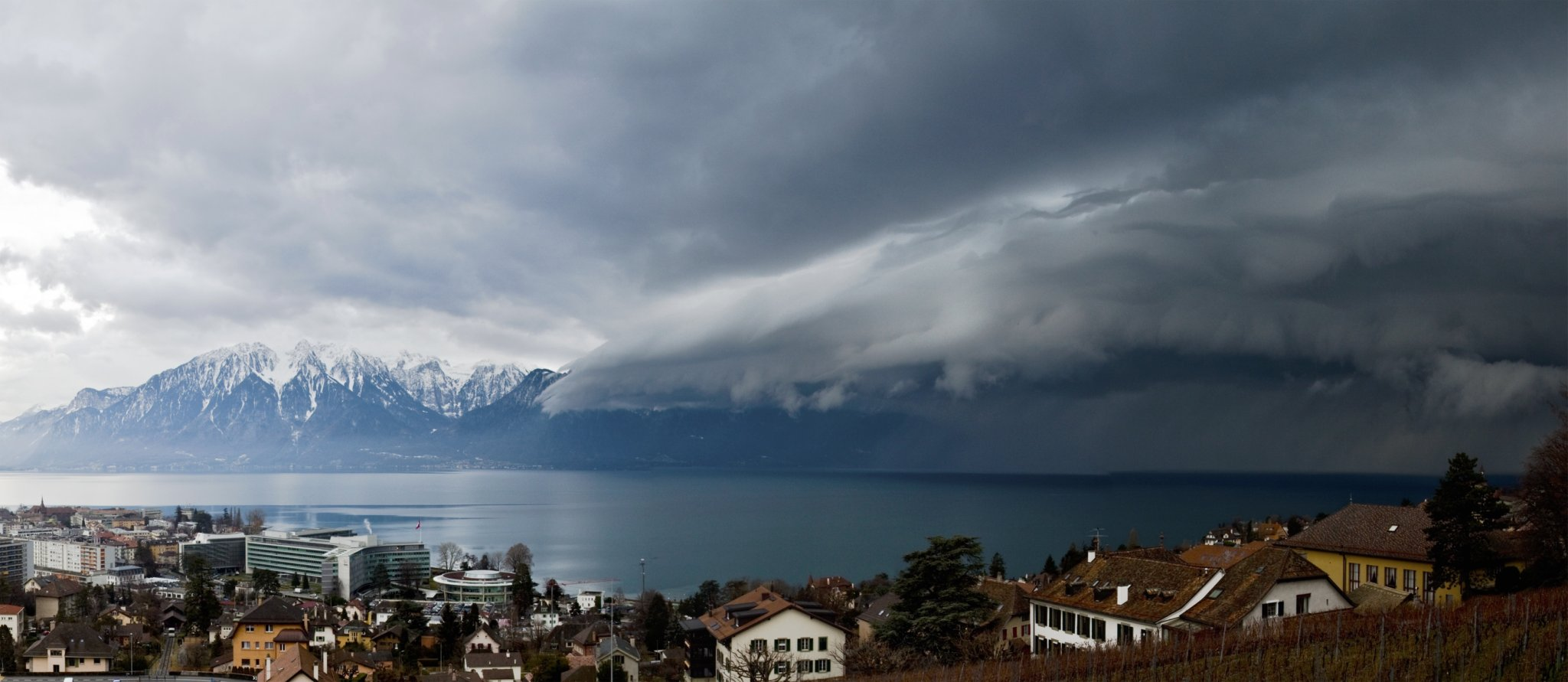 24 Feb 2010 - weather front over Lake Geneva. View from Corseaux.